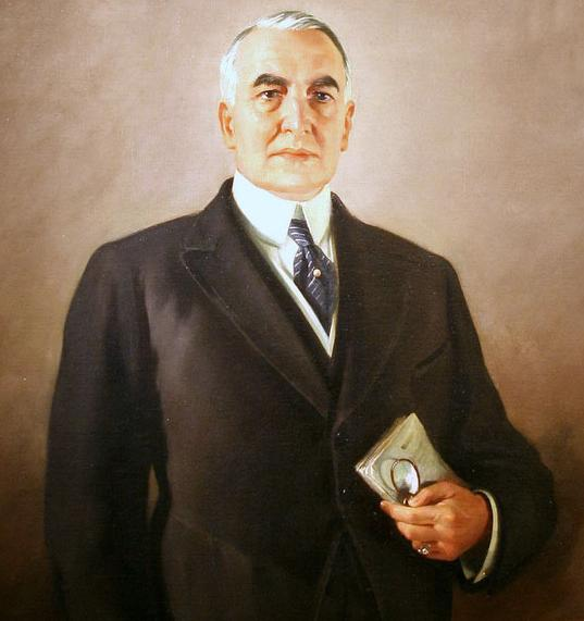 Official White House portrait of Warren G. Harding.